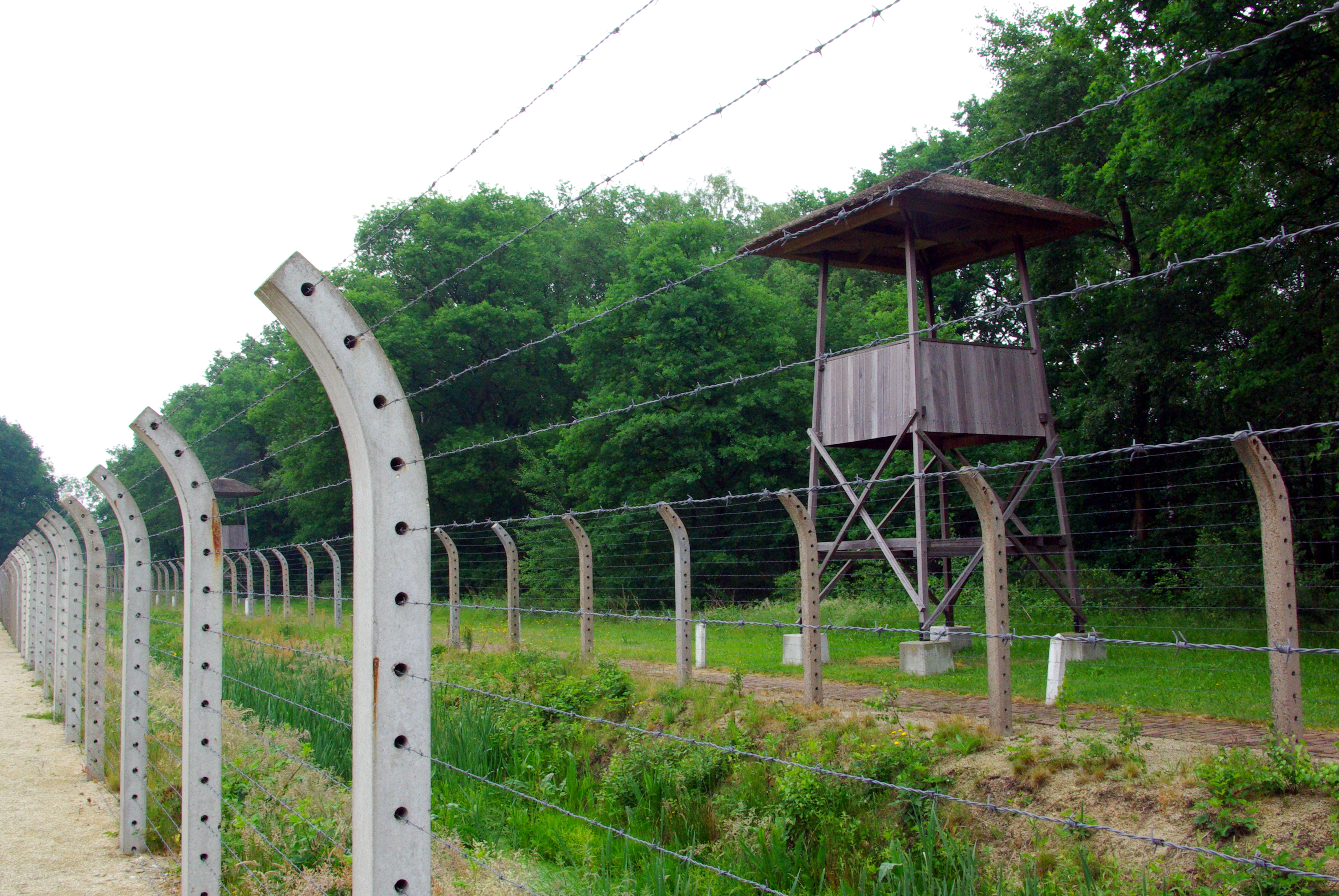 Photo taken during visit to the Kamp Vught. The photo shows the view of the barbed wire fences and watchtowers from inside the concentration camp.